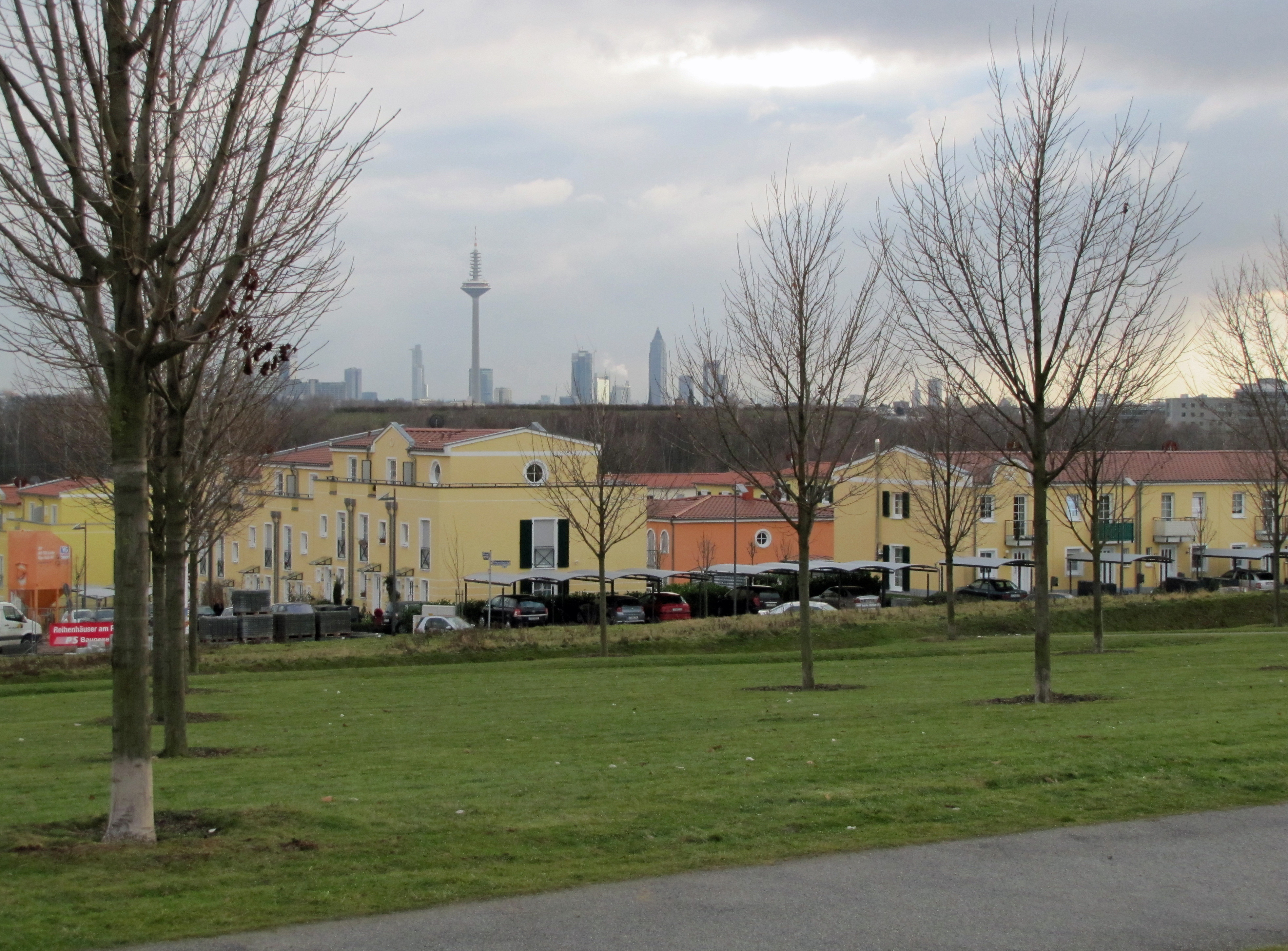 Skyline of (downtown) Frankfurt am Main from Kalbach-Riedberg.